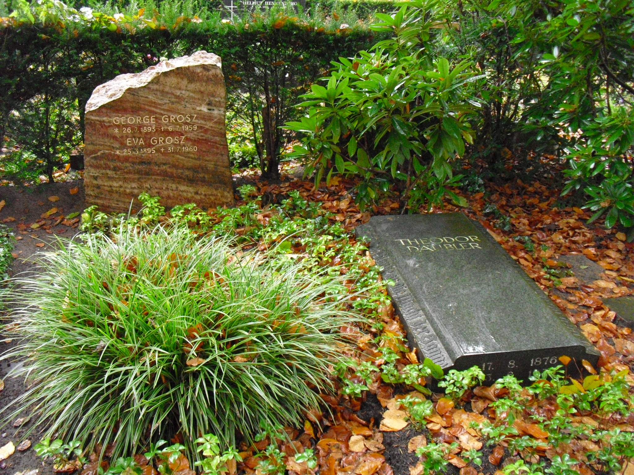 Neighbors: Grave of George Grosz (left) and Theodor Däubler in Friedhof Heerstraße in Berlin-Westend